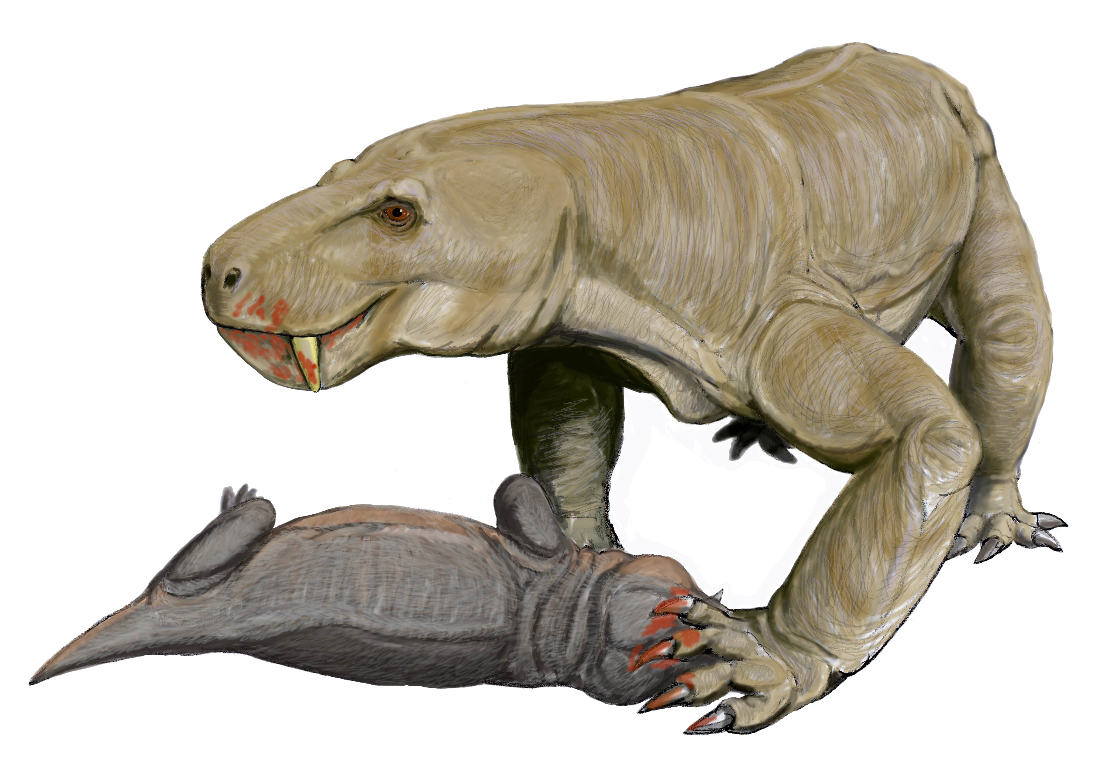 Sycosaurus kingorensis (aka Leontocephalus haughtoni)